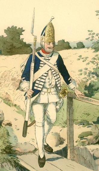 Regiment Hessen-Darmstadt grenadier (1752)